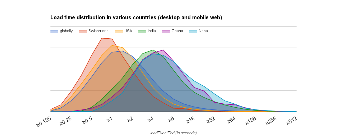 Distribution (i.e. frequency by number of pageviews) of waiting times for Wikipedia readers until a page from the English Wikipedia (mobile or desktop version) has completed loading; globally and for some of the "fastest" and "slowest" countries. This duration is influenced by the user's connection speed - e.g. Cable vs. dialup, 2G vs. 4G -, their distance to the Wikimedia Foundation's servers, the size of the page being read, and by how well it is optimized for fast loading. (Values of loadEventEnd during Dec 22, 2015 to Jan 26, 2016; the global median was 1703 ms. See data source for more details. Caveat: no data is recorded in cases where the connection times out or the reader leaves the page before it has finished loading.)